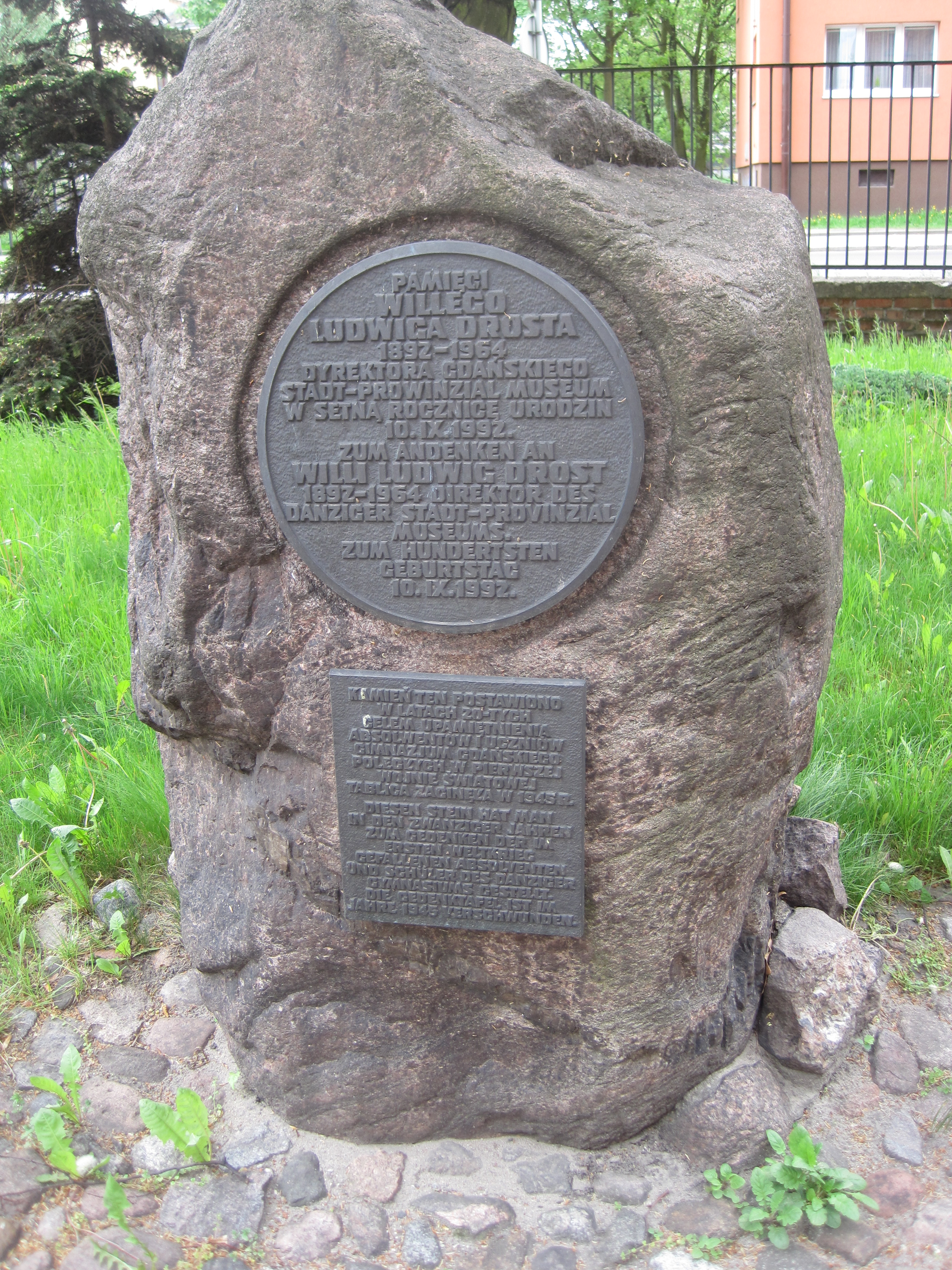 Building of the National Museum in Gdańsk.